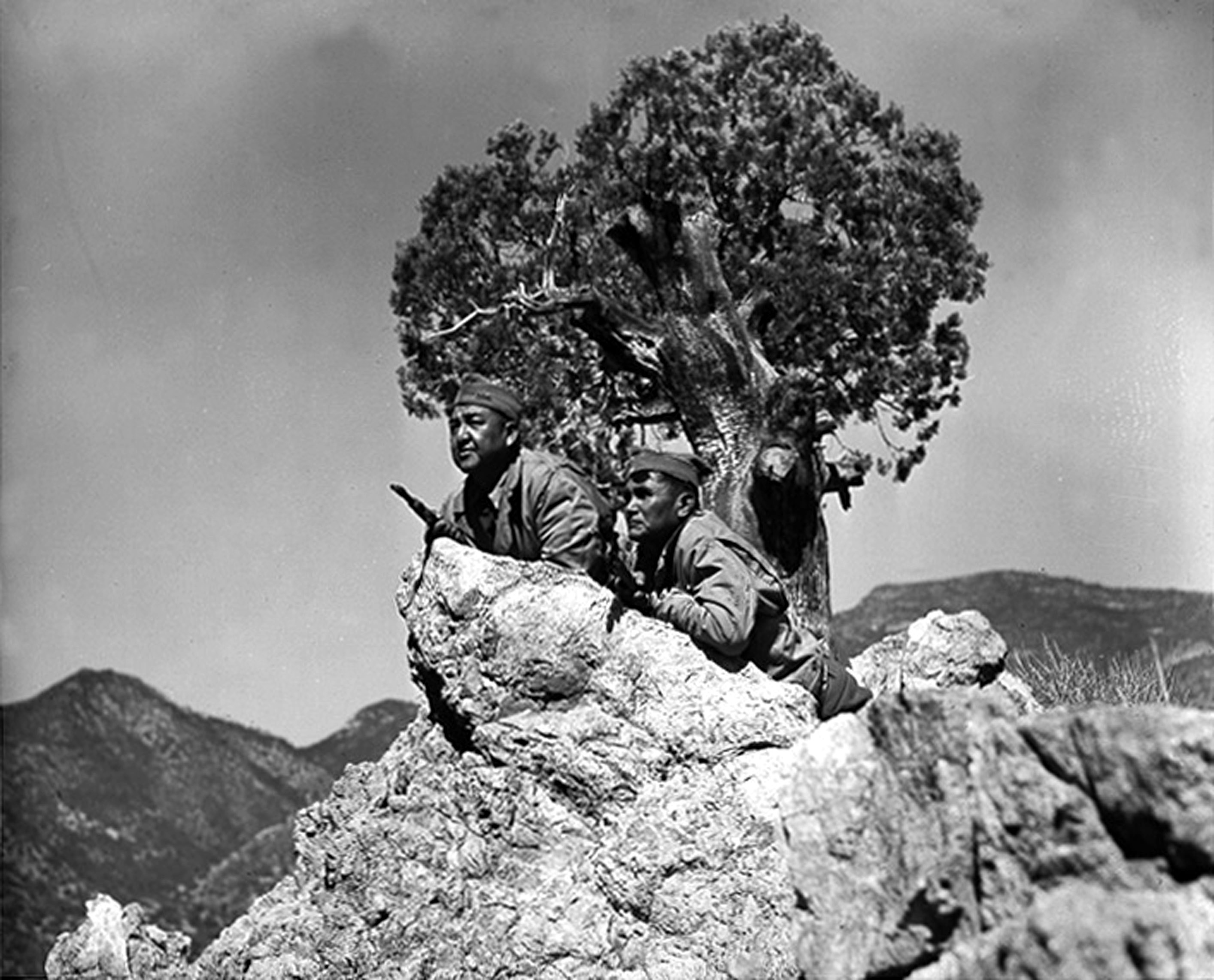 SC131141 - Private William Major and Private Andrew Paxson patrol the southern border from a peak of the Huachuca Mountains. Ft. Huachuca, Arizona (April 1, 1942) Signal Corps Photo #17 by Carl Gaston